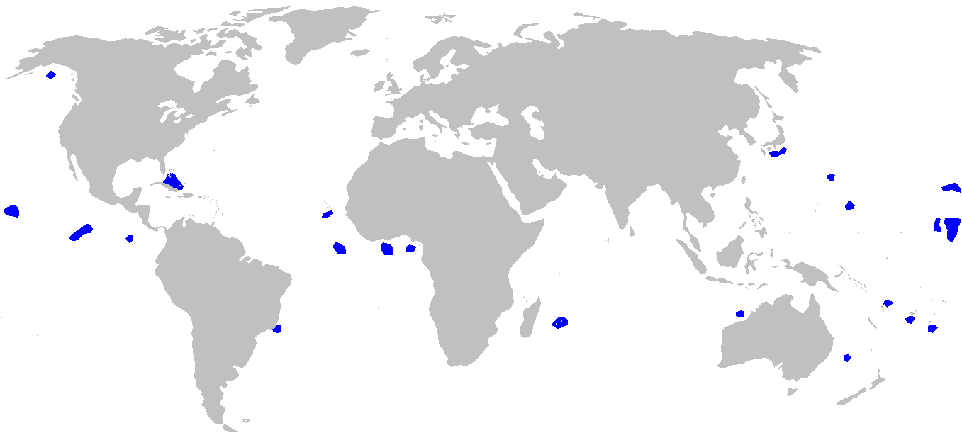 Distribution map for the Cookiecutter shark